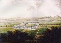 A painting of the Moravian Community of Herrnhaag, outside Frankfort, Germany.